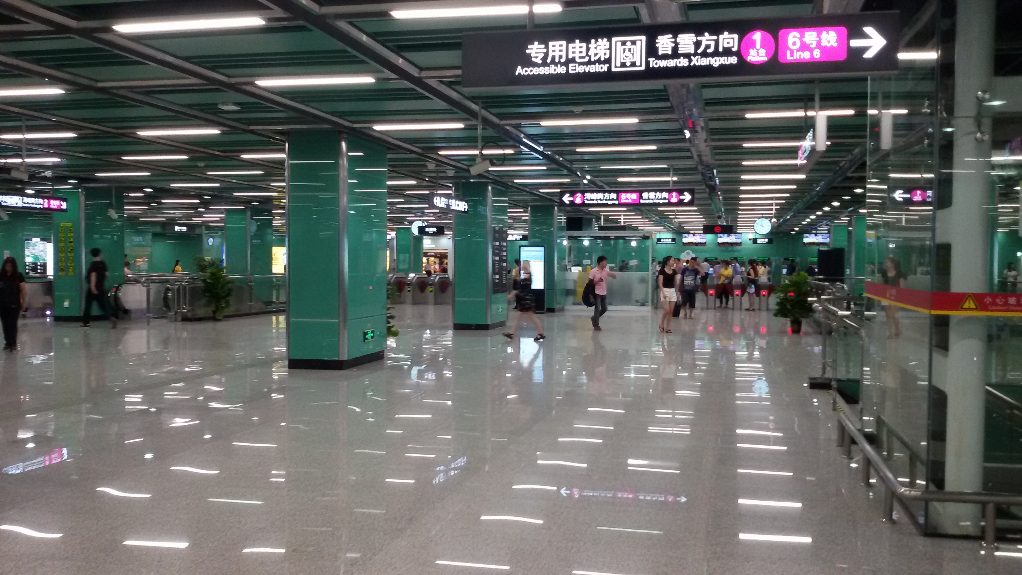 Station Concourse for Botanical Garden Station in Guangzhou Metro.